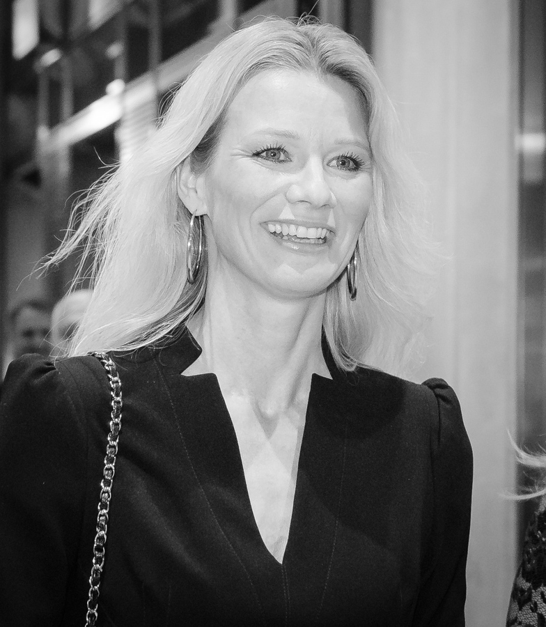 Kari Due-Andresen, guest at Governor Øystein Olsen's annual address in February 2018